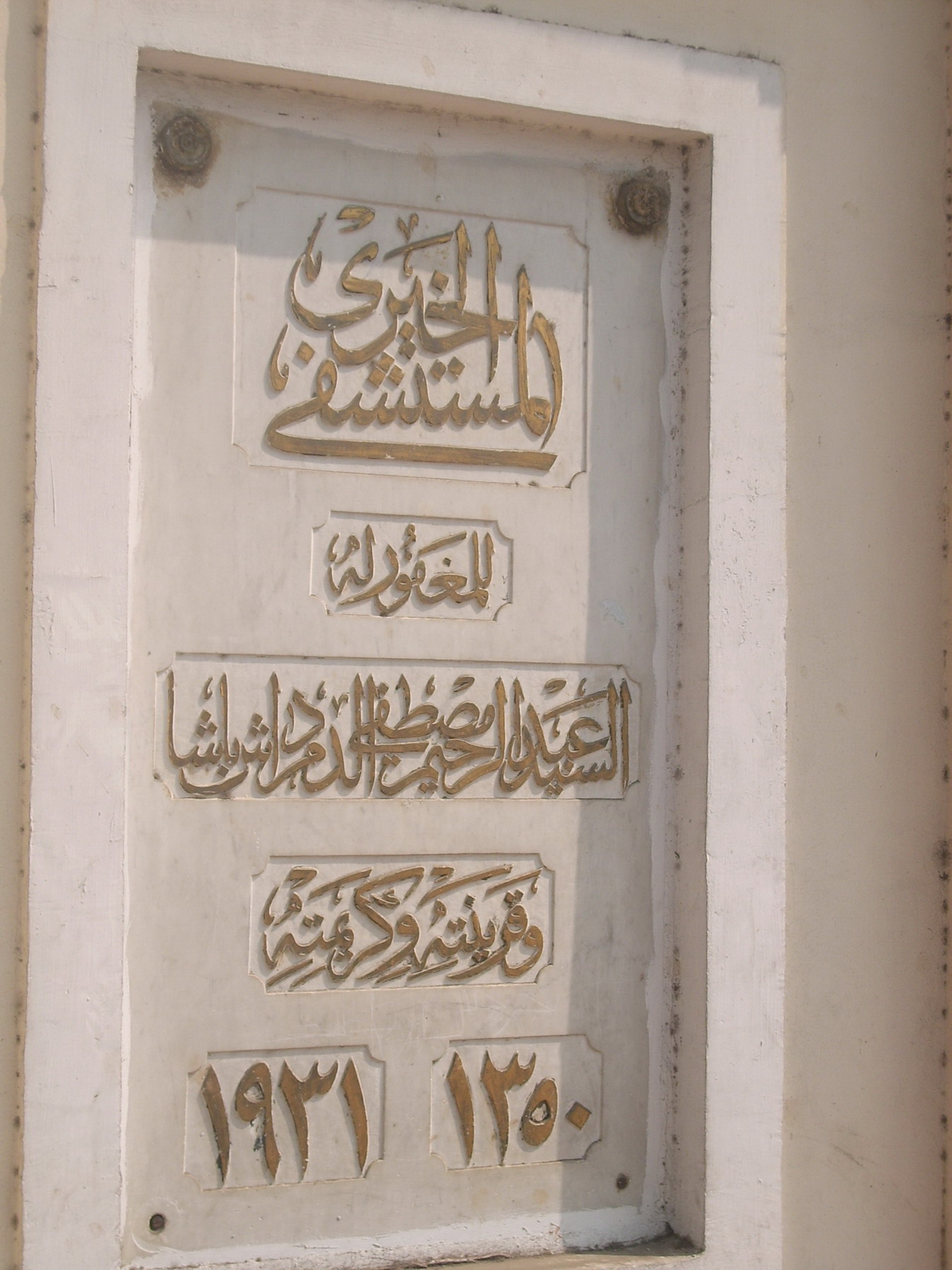 El-Demerdash hospital memorial establishment marble plate on its gate.